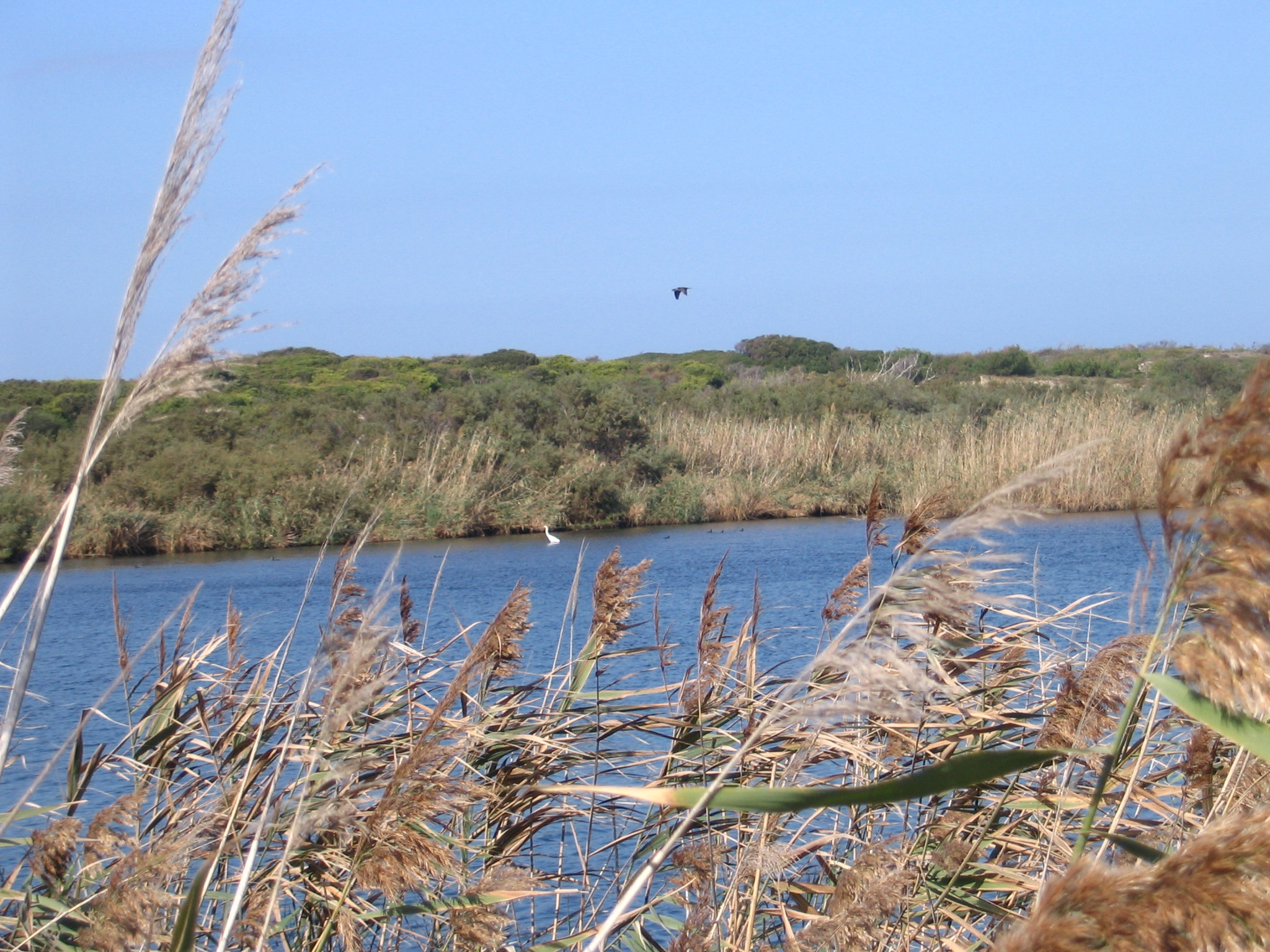 Lagoon La Perla Blu at the mouth of Coghinas River near Valledoria in Sardinia